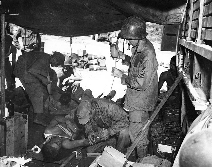 A casualty receives plasma from a U.S. Navy Hospital Corpsman at a medical aid station somewhere near the Naktong River Front, during the defense of the Pusan Perimeter, 17 August 1950. Note Chief Petty Officer rating badge stencilled on the Corpsman's jacket.